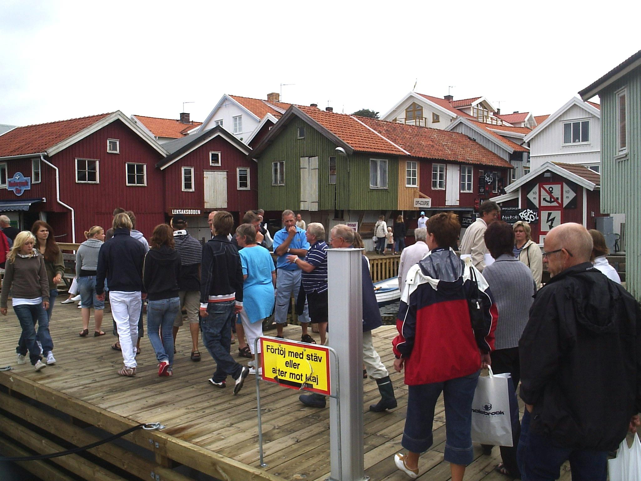 Photo by Harri Blomberg.